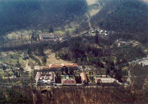 Parádfürdő (part of Parád), Hungary, aerialphotography